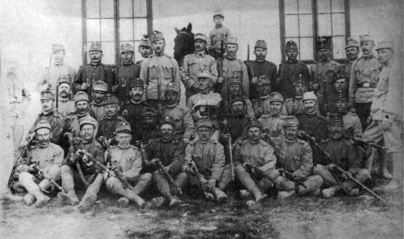 Epidemic Hospital Military Guard, Miskolc, 1915